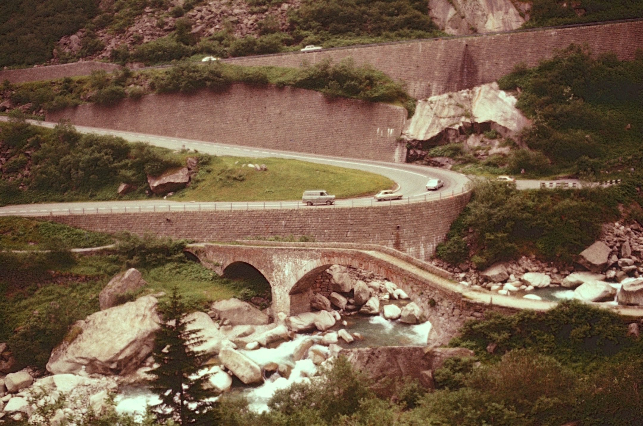 The Häderli Bridge in the Schöllenen Gorge, in central Switzerland, viewed from a passing train in 1979. Built in 1649, the original bridge (shown here) was destroyed by flooding in 1987 and has subsequently been replaced by a reconstruction. The section of railway line at the precise location from which the photo was taken has since been placed underground, in a tunnel.